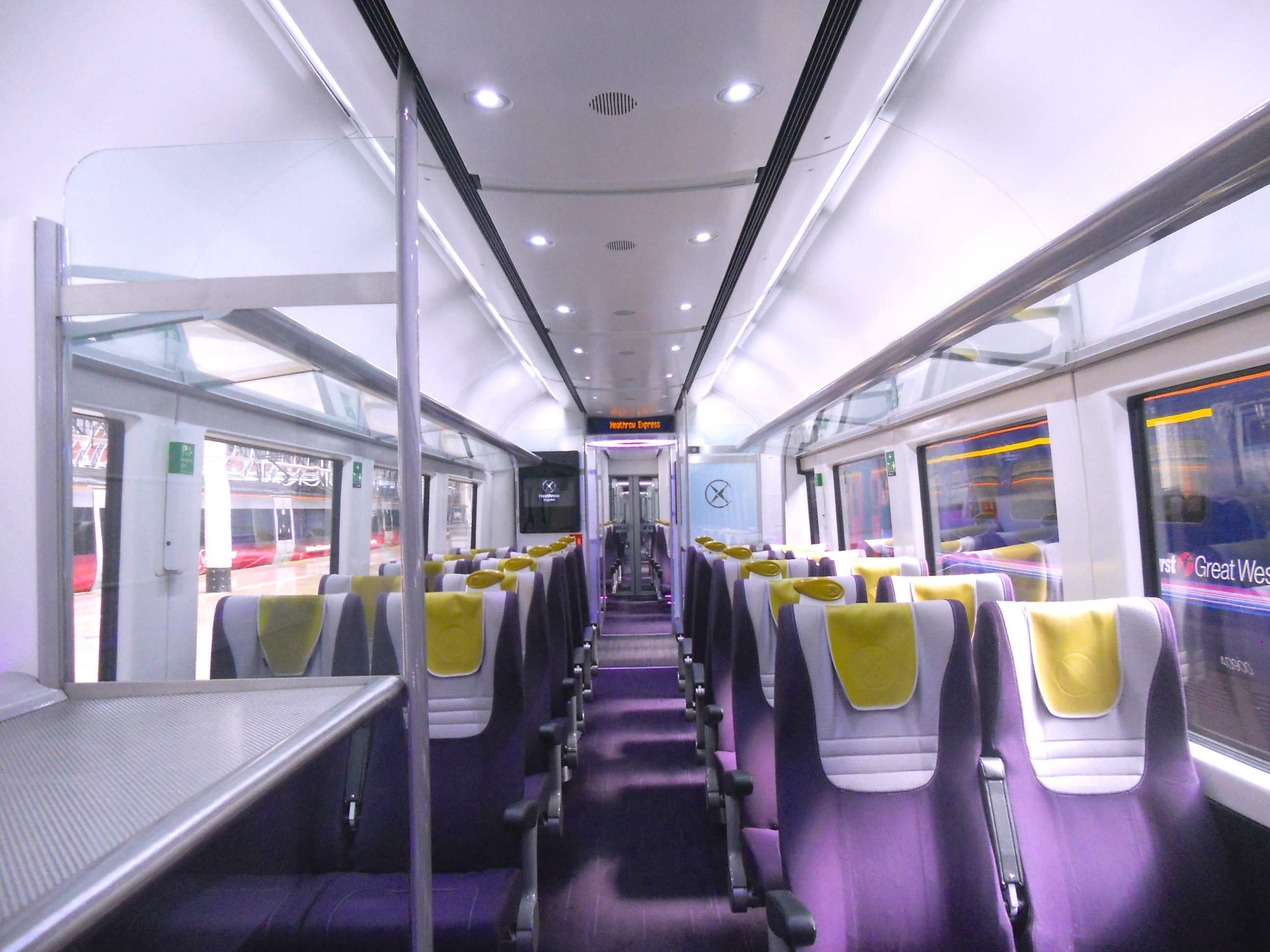 A half internal view of refurbished Standard Class aboard a TSO vehicle from a Class 332